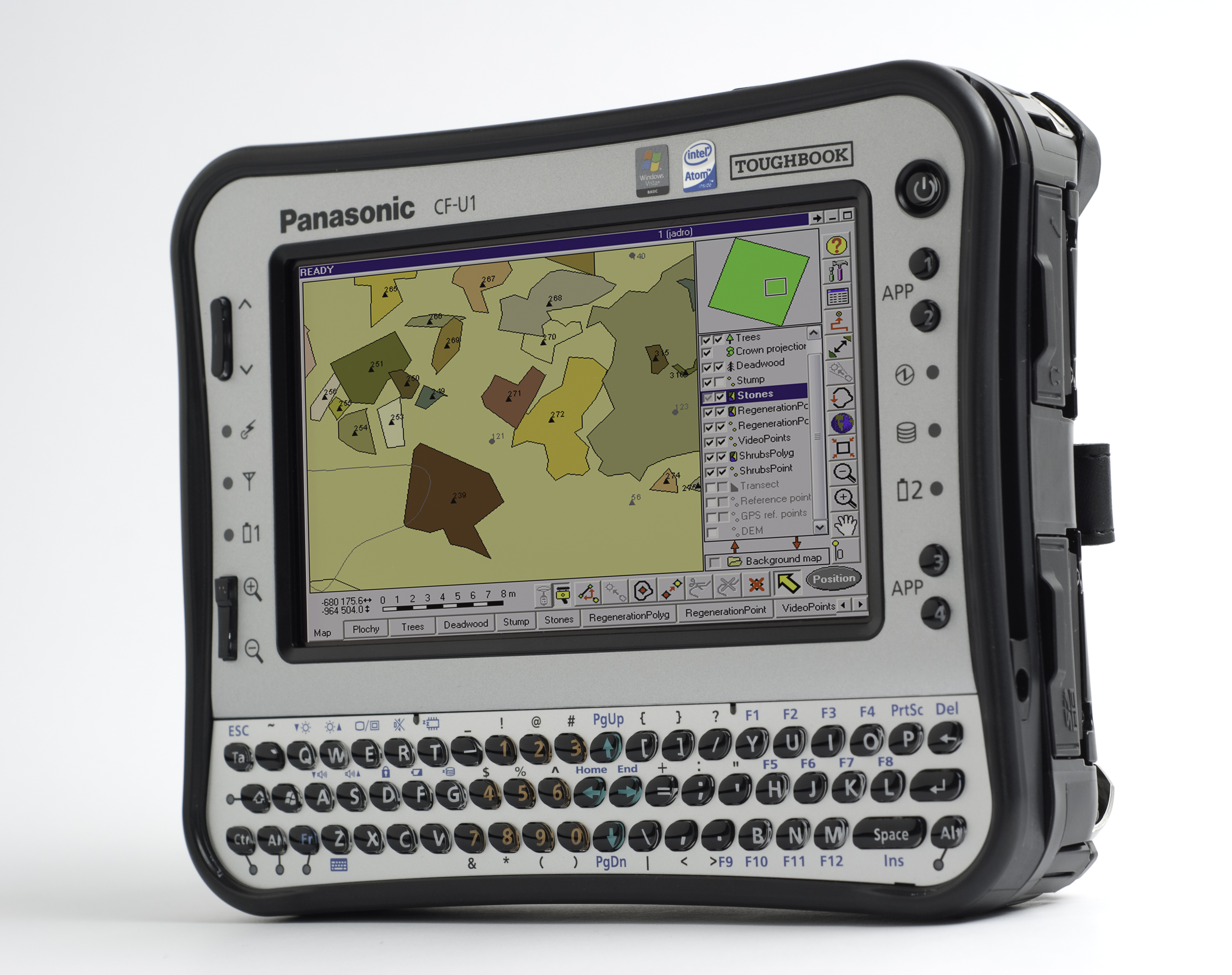 rugged field computer (Panasonic CF-U1) with software Field-Map[1] for cartography and field data collection.